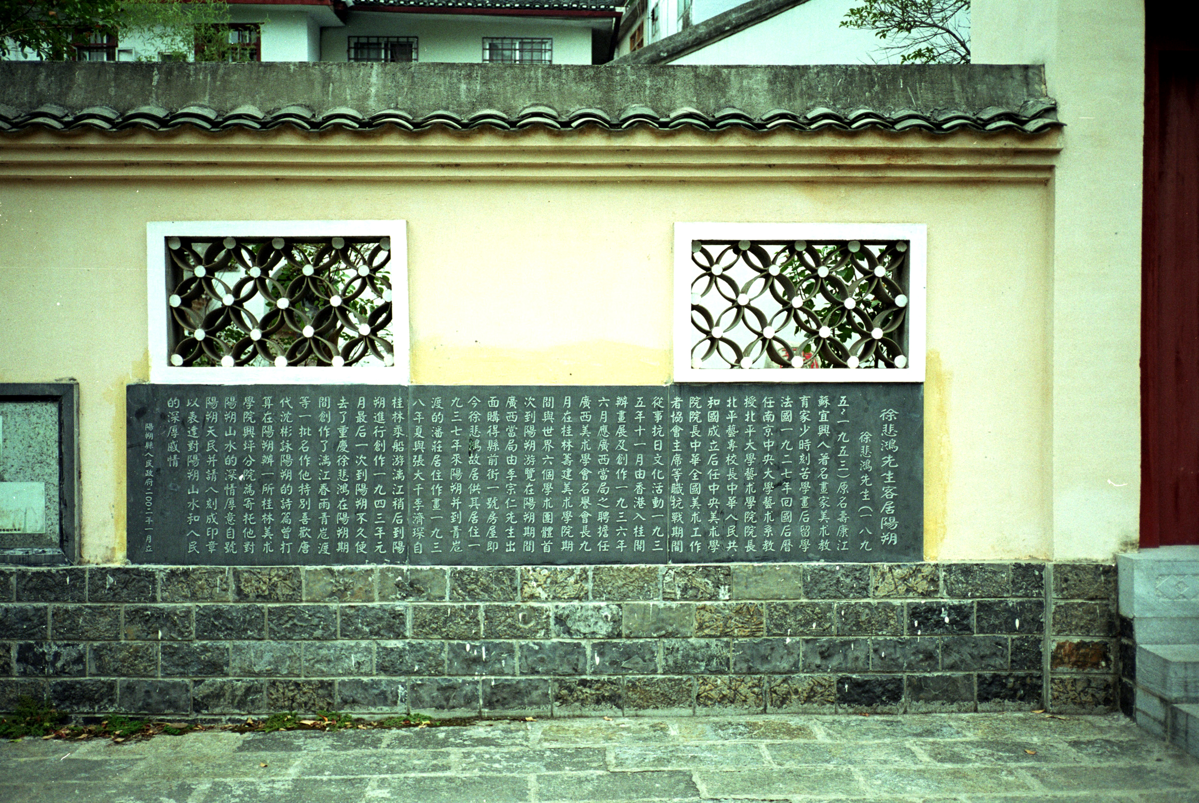 阳朔徐悲鸿故居The former residence of Xu Beihong